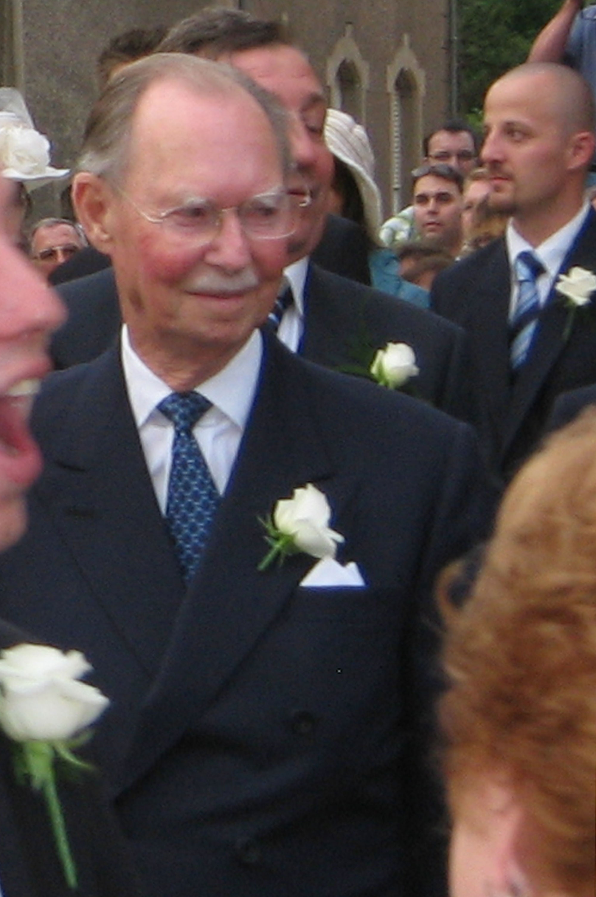 Grand Duc Jean on September 29th 2006 in Gilsdorf at the wedding of his grandson Prince Louis.